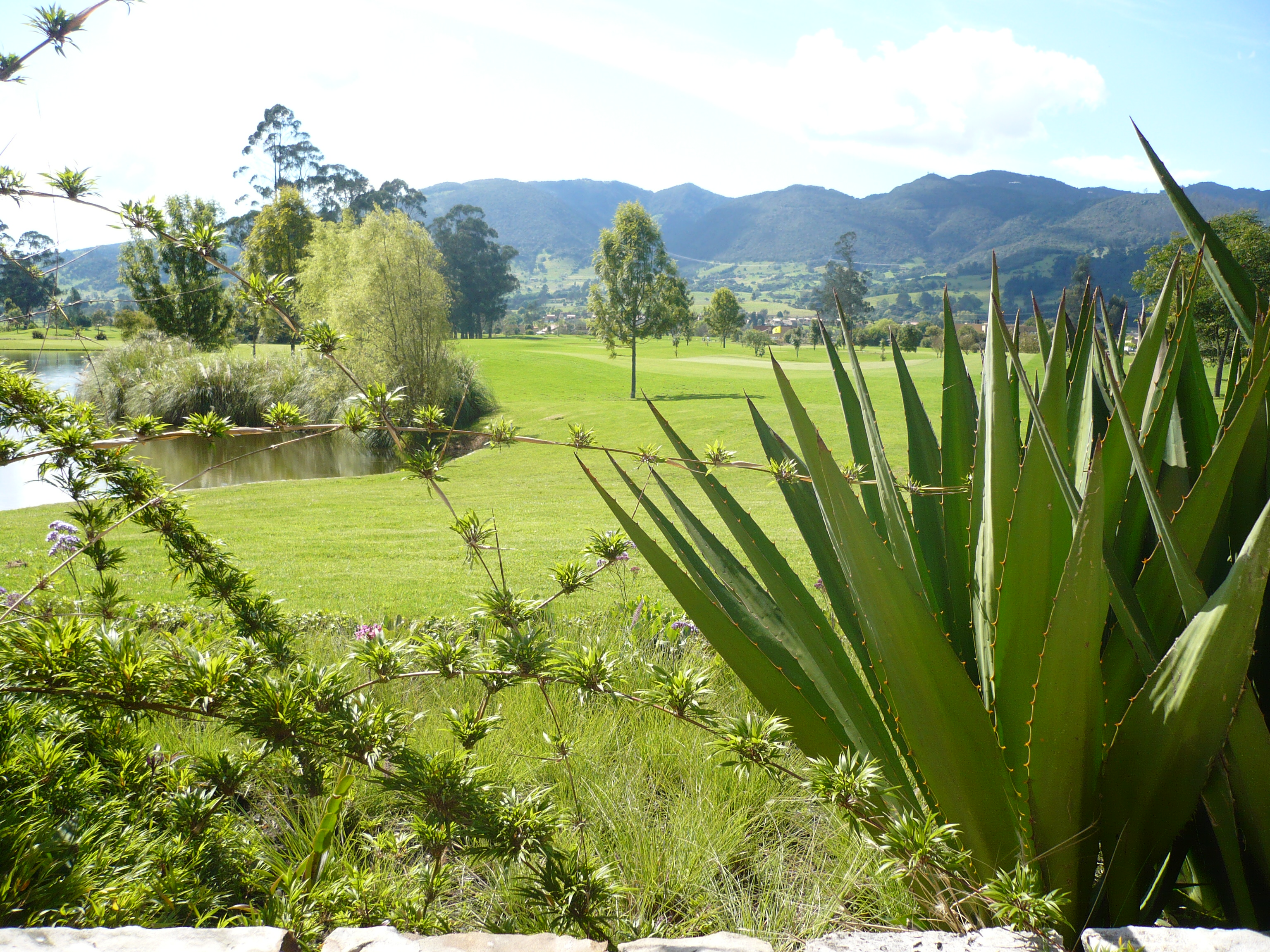 Bogota surroundings